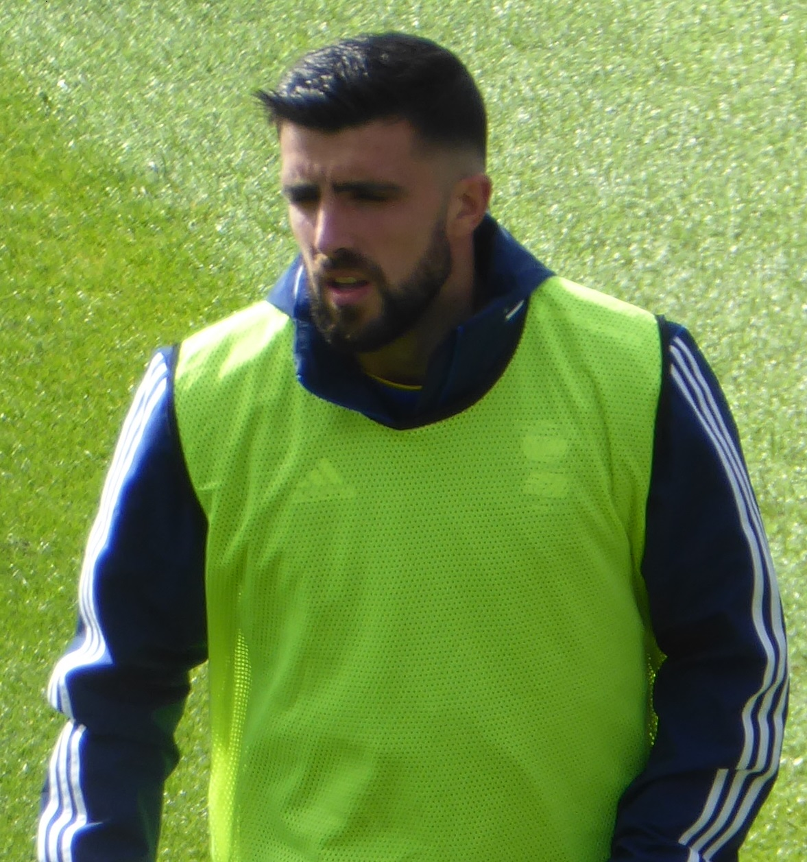 Agus Medina warms up before making his English Football League debut with Birmingham City in the EFL Championship match against Bristol City at St Andrew's on 10 August 2019